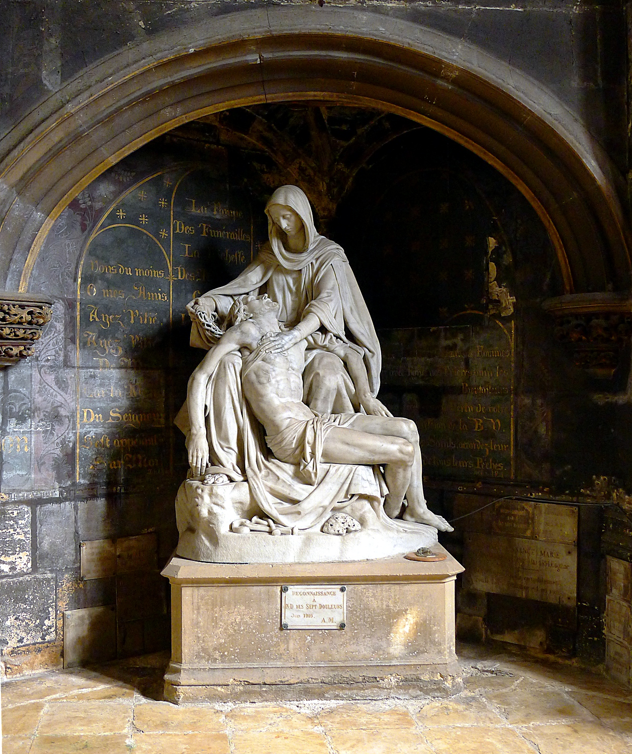 Saint-Germain l'Auxerrois church - Paris